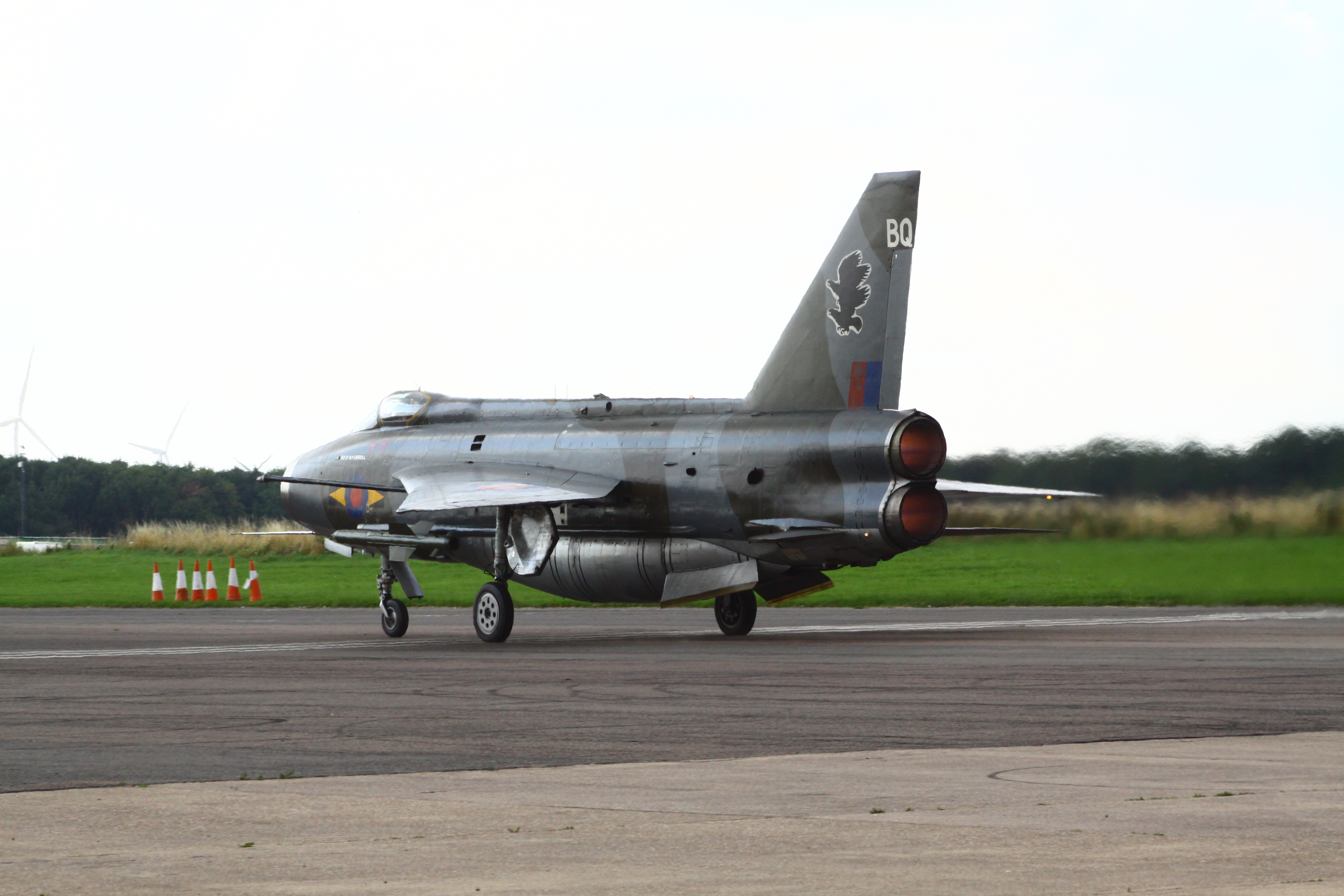 Static reheat of one of the lightnings before its fast run along Bruntingthorpes' 2 mile runway. At this point my ears were really hurting but thats the fun!!!